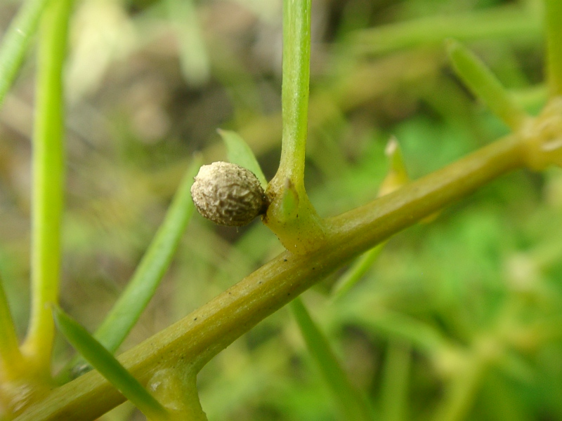 Thesium chinense fruit at Odawara-city, Japan.